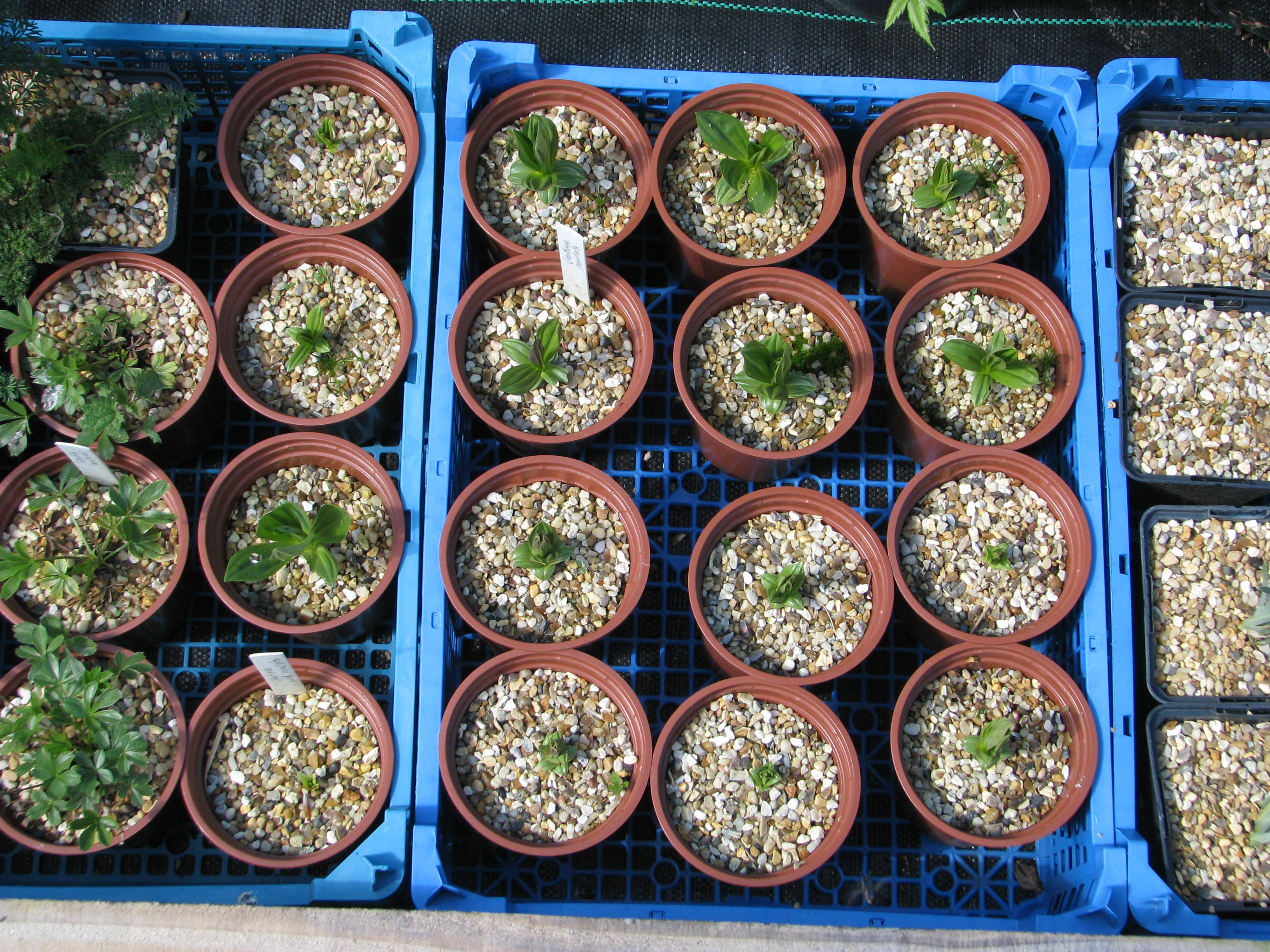 fingers crossed...